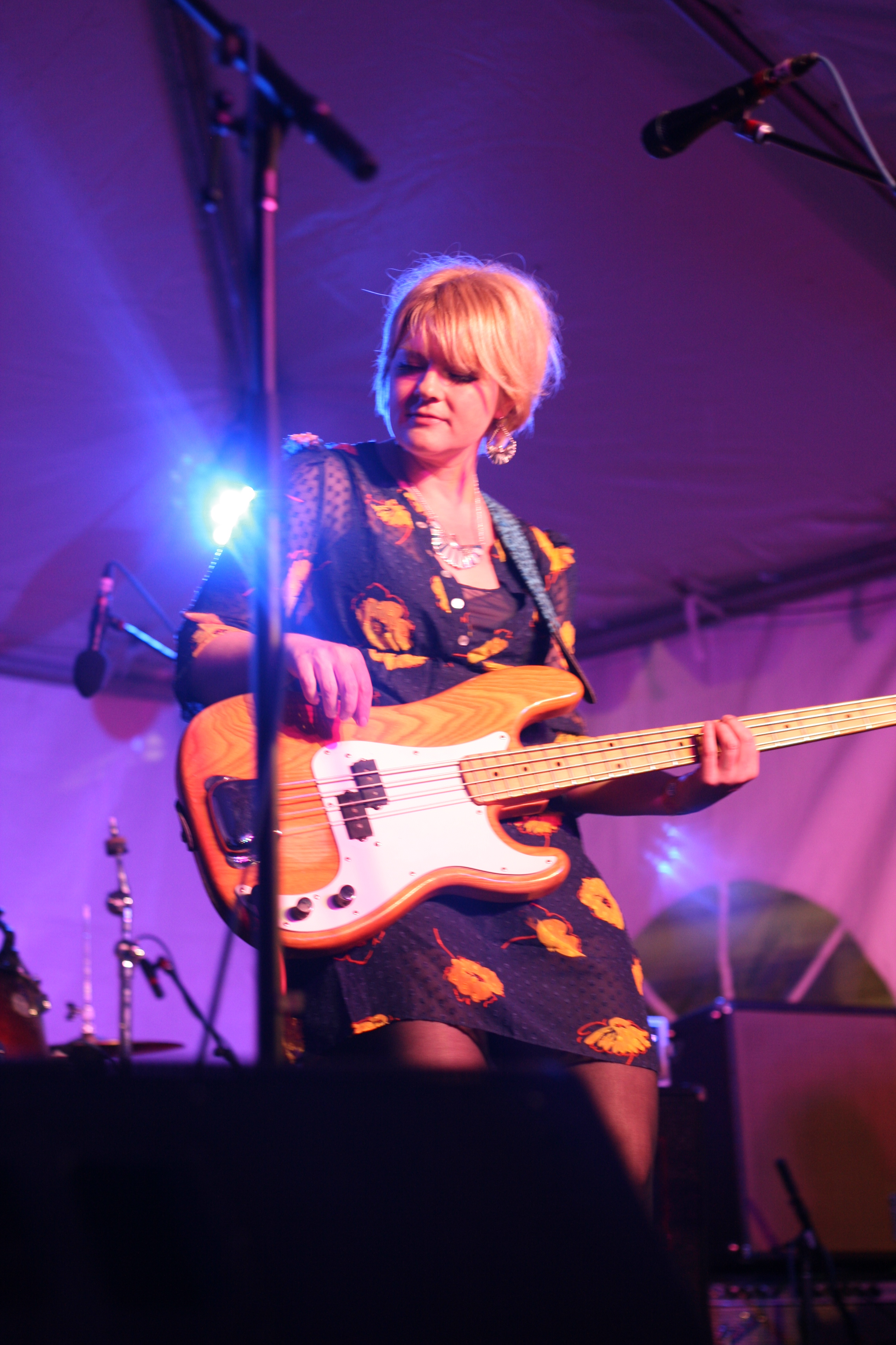 Shonna Tucker leading her band, Eye Candy, at the Muscle Shoals Showcase at SXSW, March 14, 2013.